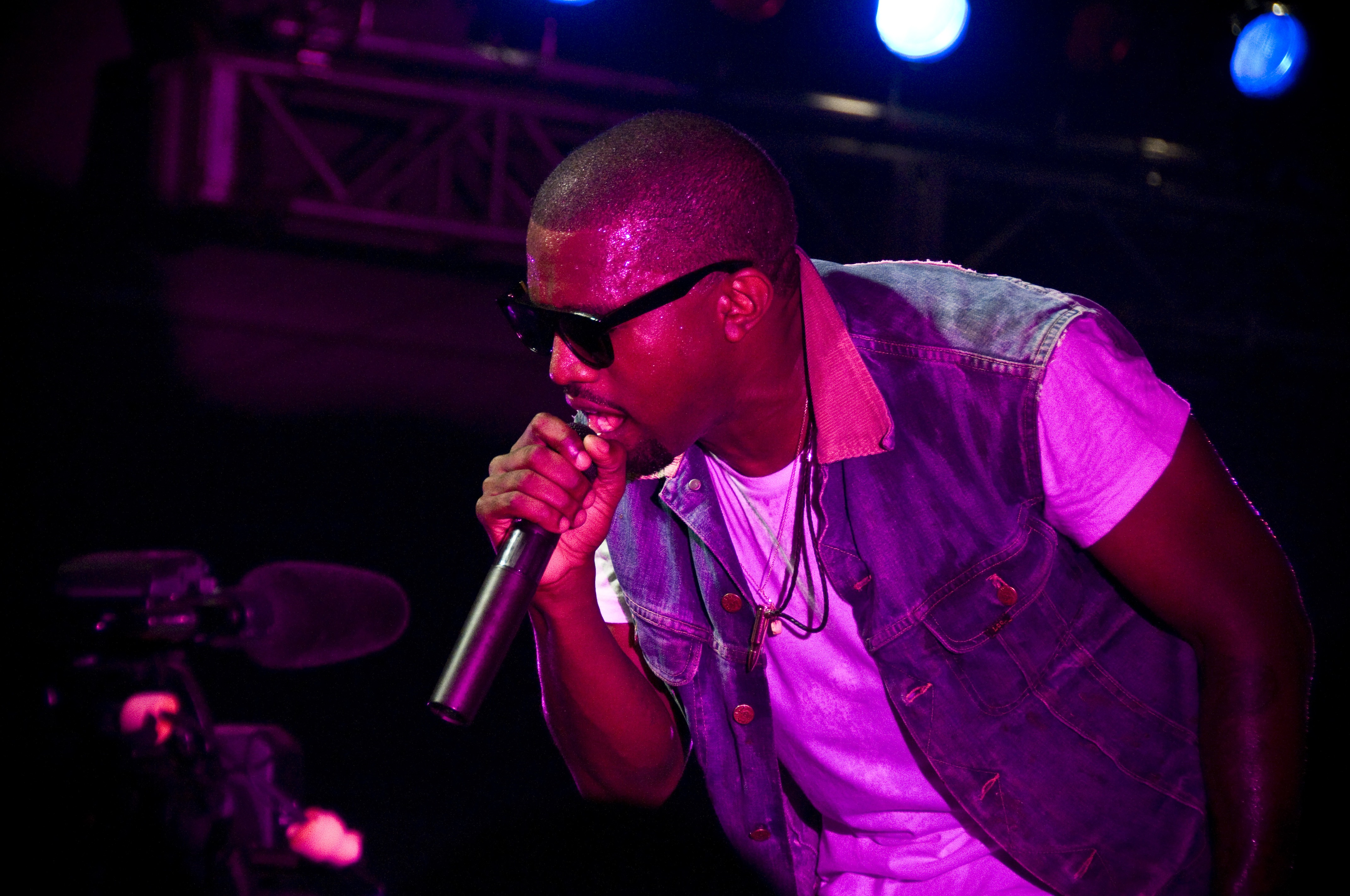 Kanye performing at the Levi's/FADER Fort at SXSW in Austin, March 2009